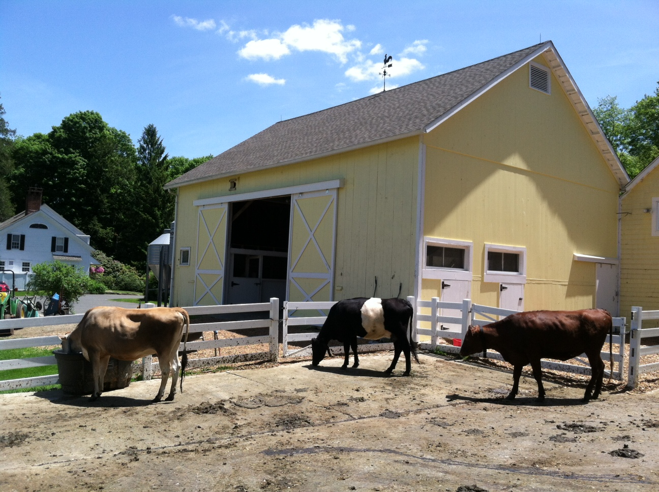 New Pond Farm in Redding, Connecticut, May 2014